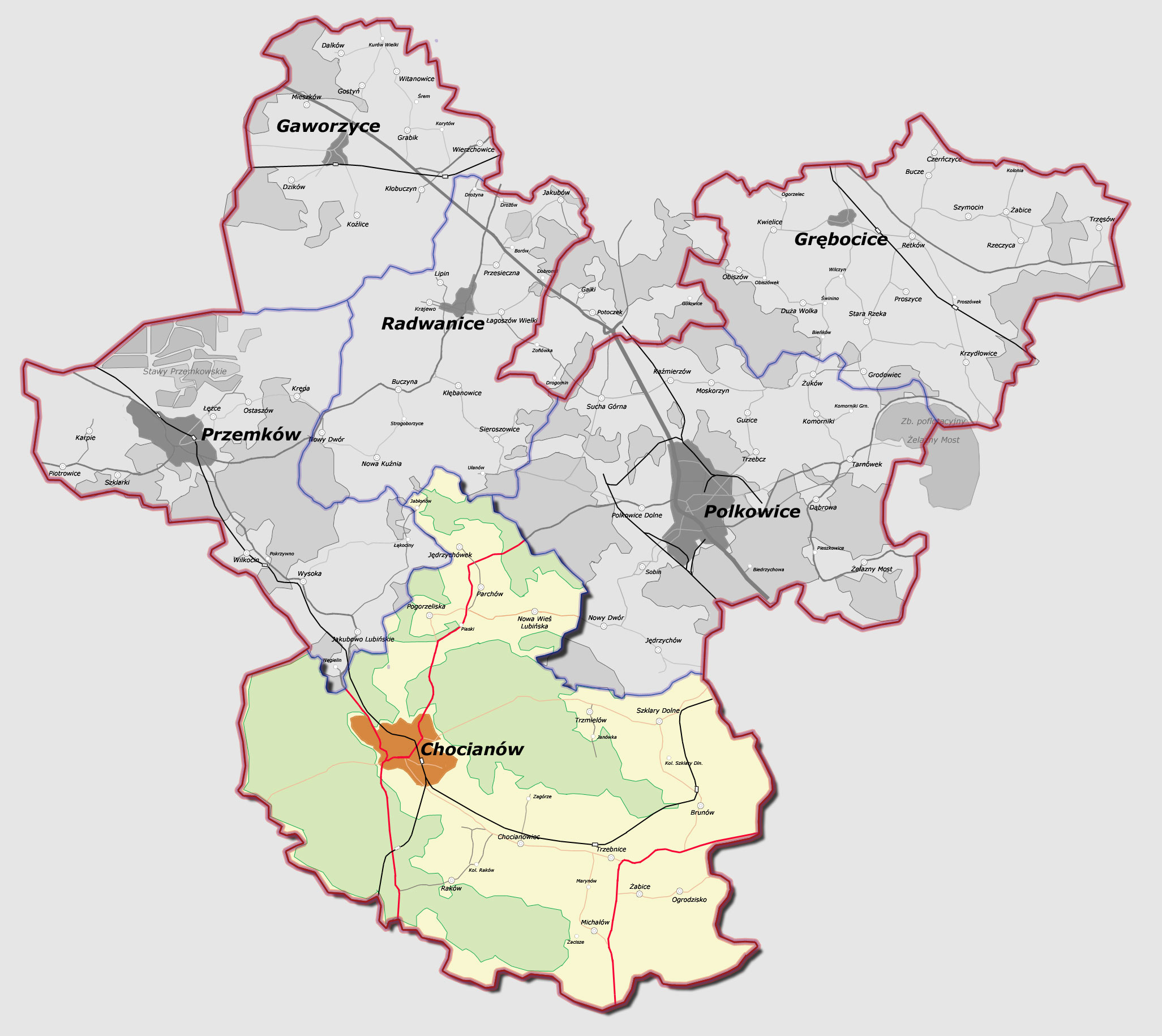 2006 by Jurij